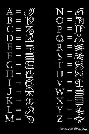 Monovitae — the alphabet used in the insert of the music album Mer de Noms by A Perfect Circle